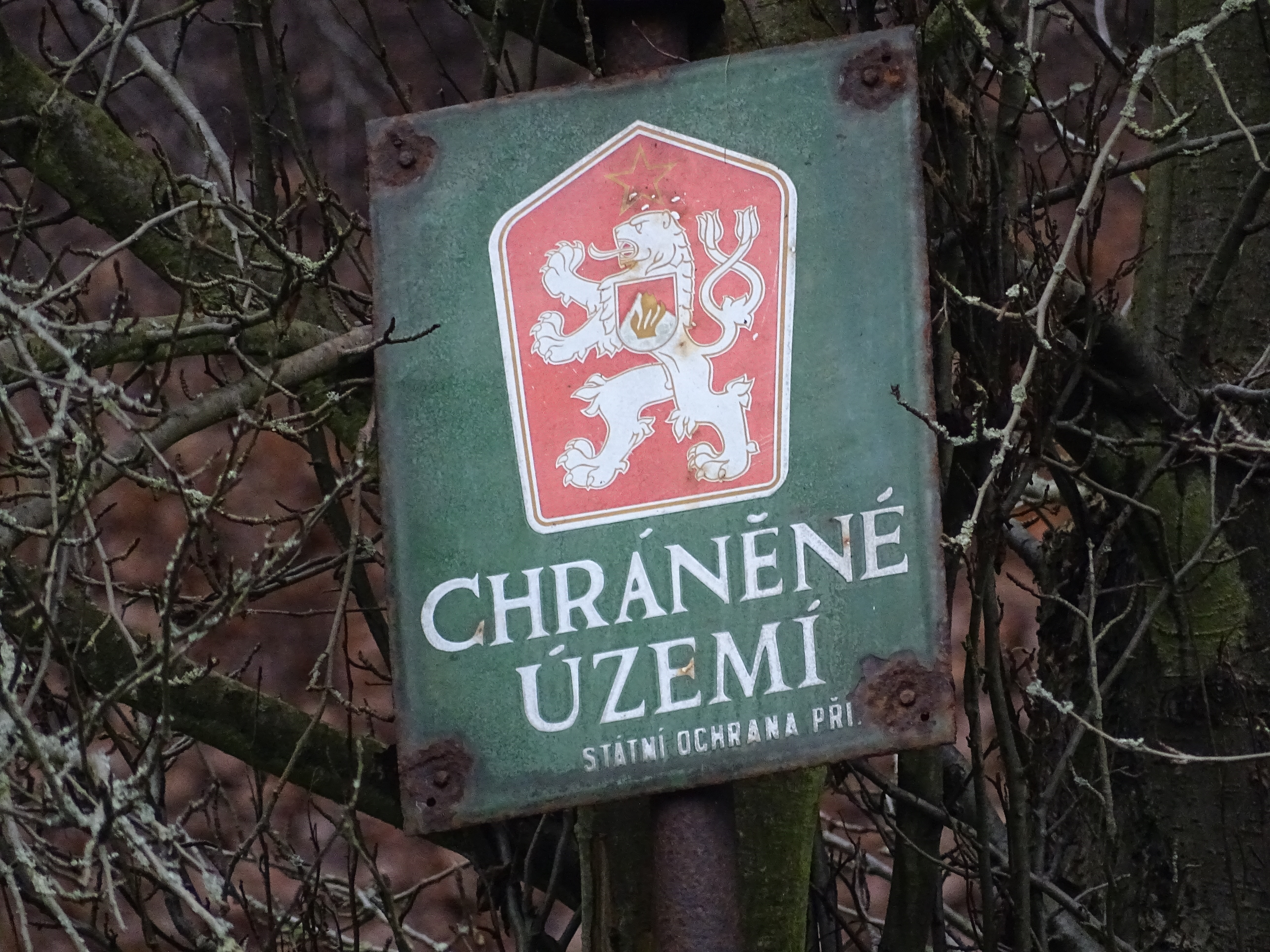 Prague-Čimice, Czech Republic. Čimice Valley natural monument, an old sign of protected area.